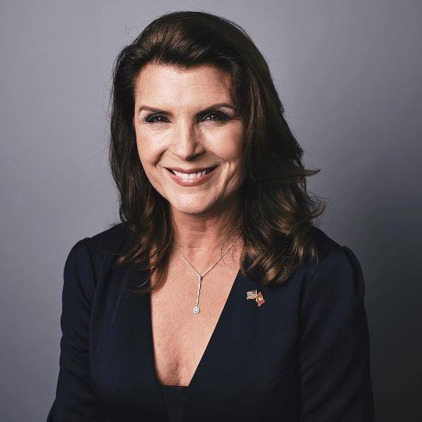 Kimberlin Brown Pelzer is running for Congress in the 36th District of California.